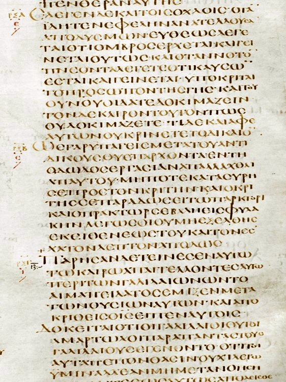 Luke 12:54-13:4, extracted from the manuscript of the Codex Alexandrinus. BL Royal MS 1 D, f. 32r. Held and digitised by the British Library.mail Cust pmñjjmnmmljjjjĵmmmm